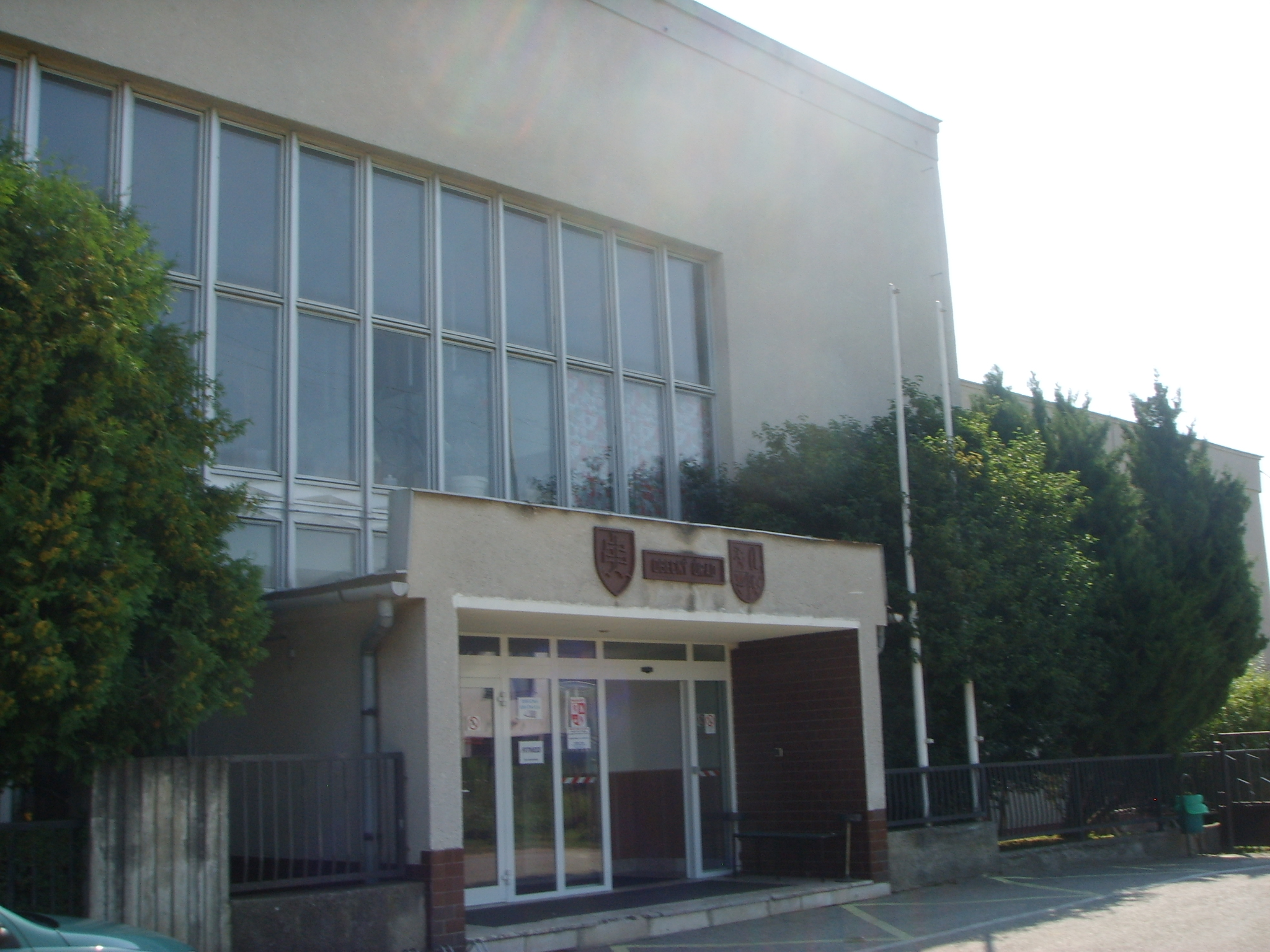 Municipal office in Valaliky, Košice-okolie district, Slovakia